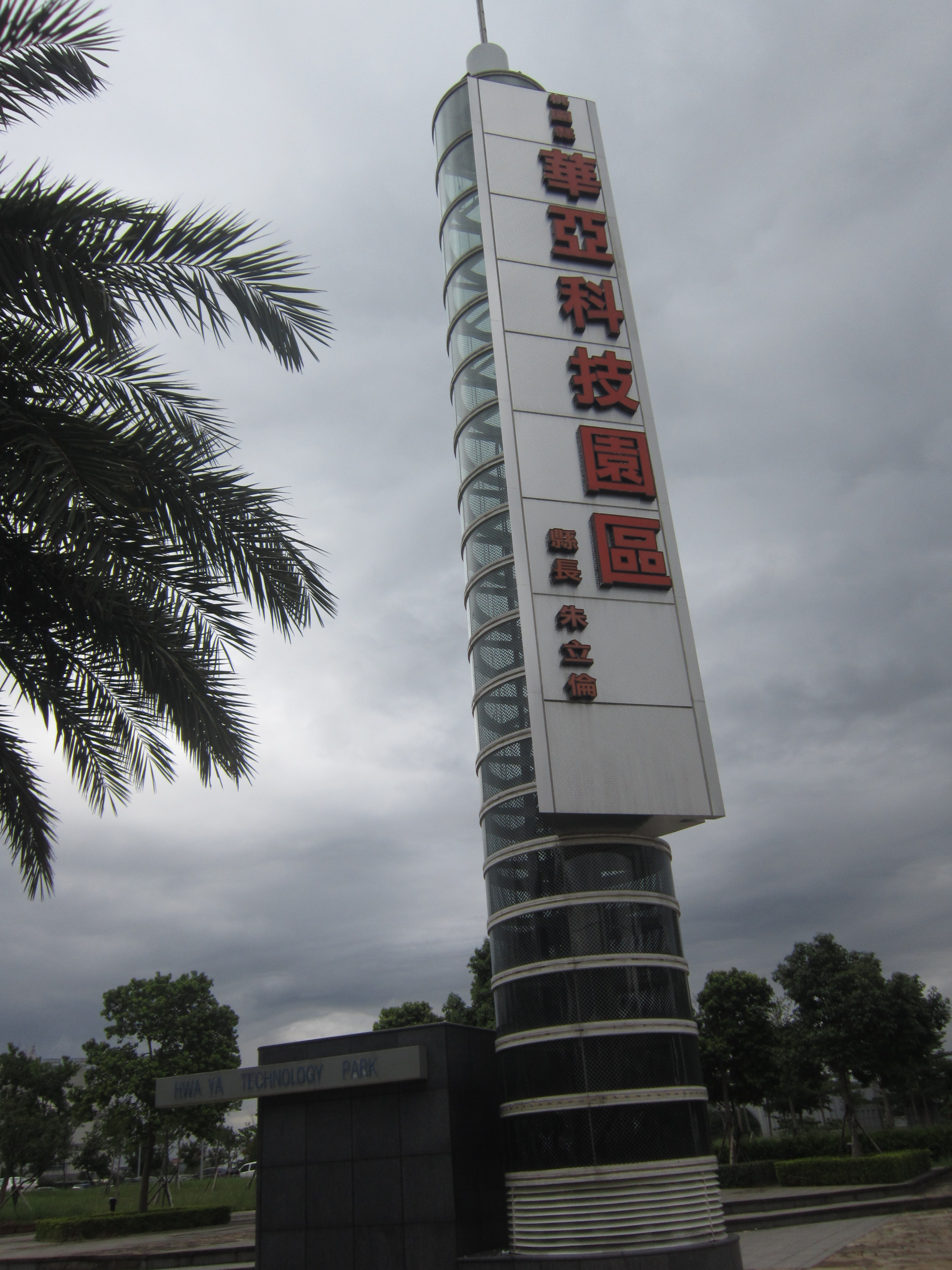 Hwa_Ya_Technology_Park